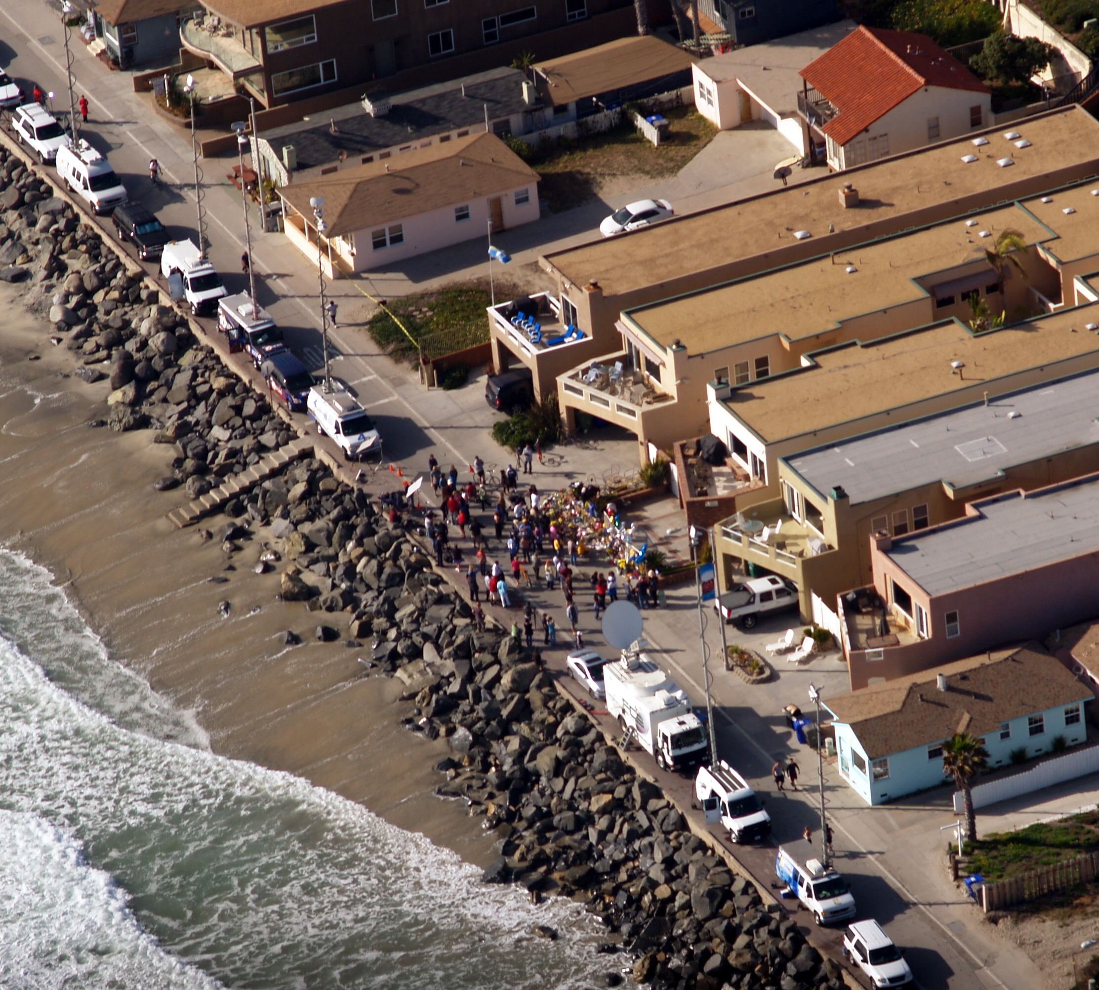 This photo was taken of the public and media outside Junior Seau's home from my helicopter. Please attribute the photo to "Phil Konstantin".